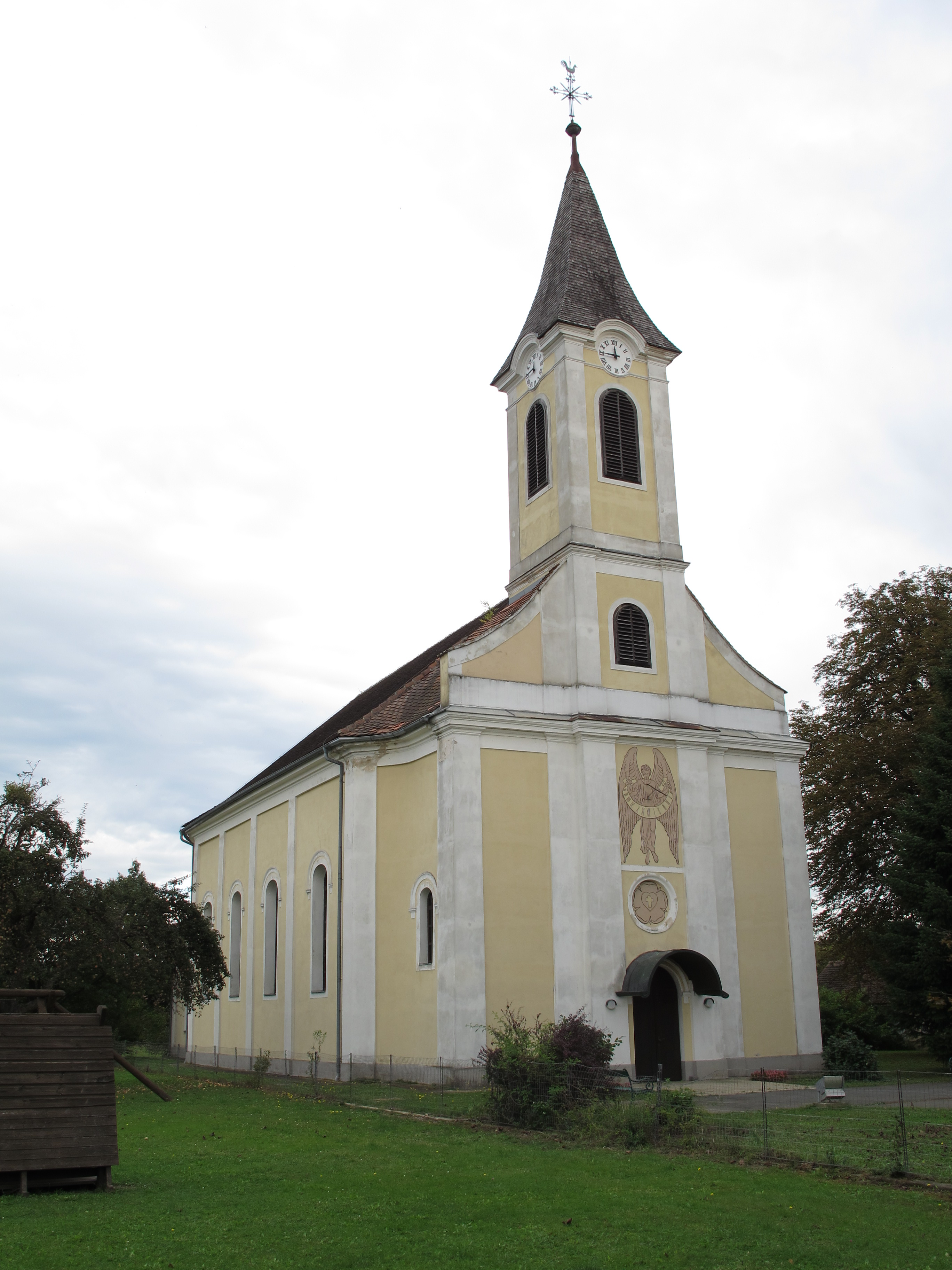 Evangelische Pfarrkirche Eltendorf